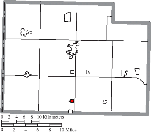 Map of the municipal and township boundaries of Paulding County, Ohio, United States, as of the 2000 census, with the location of the village of Haviland highlighted. Township borders are shown only in unincorporated areas in order to differentiate incorporated and unincorporated areas more clearly.